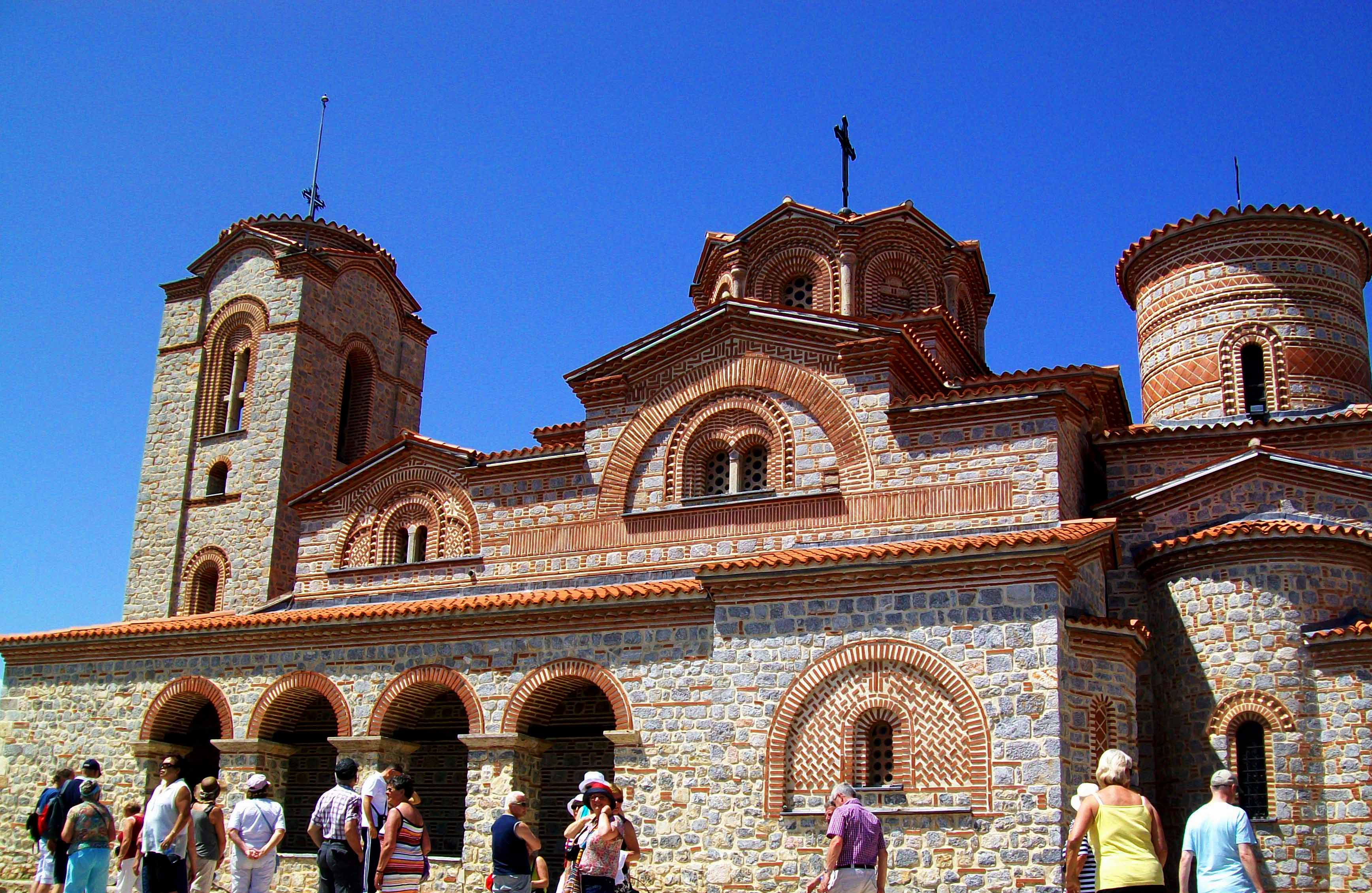 Church of Saints Clement and Panteleimon on the place Plaoshnik in the old southern part of the hill where the old town of Ohrid